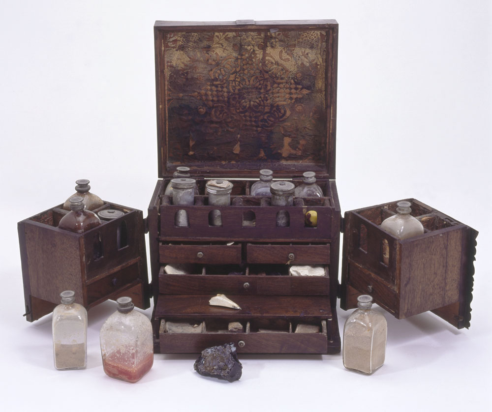 AuthorUnknownDescription